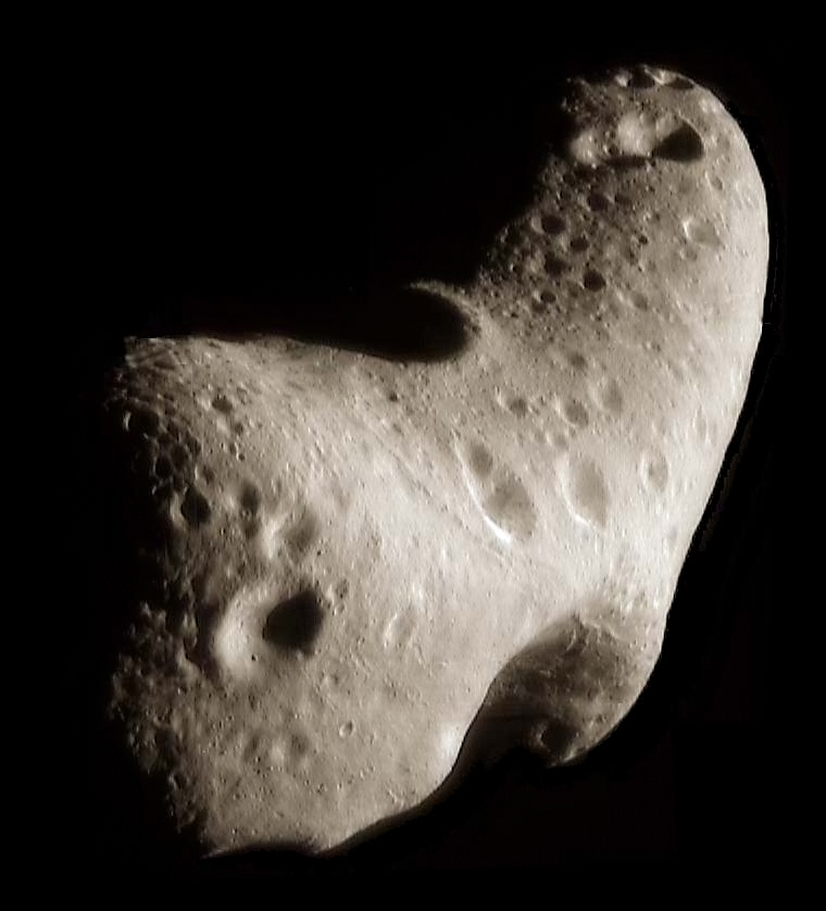 While NEAR Shoemaker orbits Eros, the asteroid appears too large for the camera's field of view. In order to get a complete view of the surface from a particular vantage point, several images are mosaiced. To do this, the digital images returned by the spacecraft are draped over a computer model of the asteroid's shape. This spectacular view -- looking down on the north polar region -- was constructed from six images taken February 29, 2000, from an orbital altitude of about 200 kilometers (124 miles). This vantage point highlights the major physiographic features of the northern hemisphere: the saddle seen at the bottom; the 5.3-kilometer (3.3-mile) diameter crater at the top; and a major ridge system running between the two features that spans at least one-third of the asteroid's circumference. Built and managed by The Johns Hopkins University Applied Physics Laboratory, Laurel, Maryland, NEAR was the first spacecraft launched in NASA's Discovery Program of low-cost, small-scale planetary missions. See the NEAR web page at for more details.